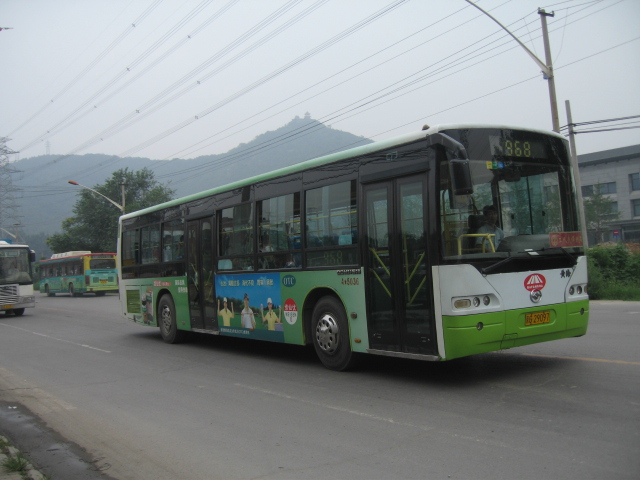 DD6123S08, a Neoplan Centroliner-feeling Huanghai.